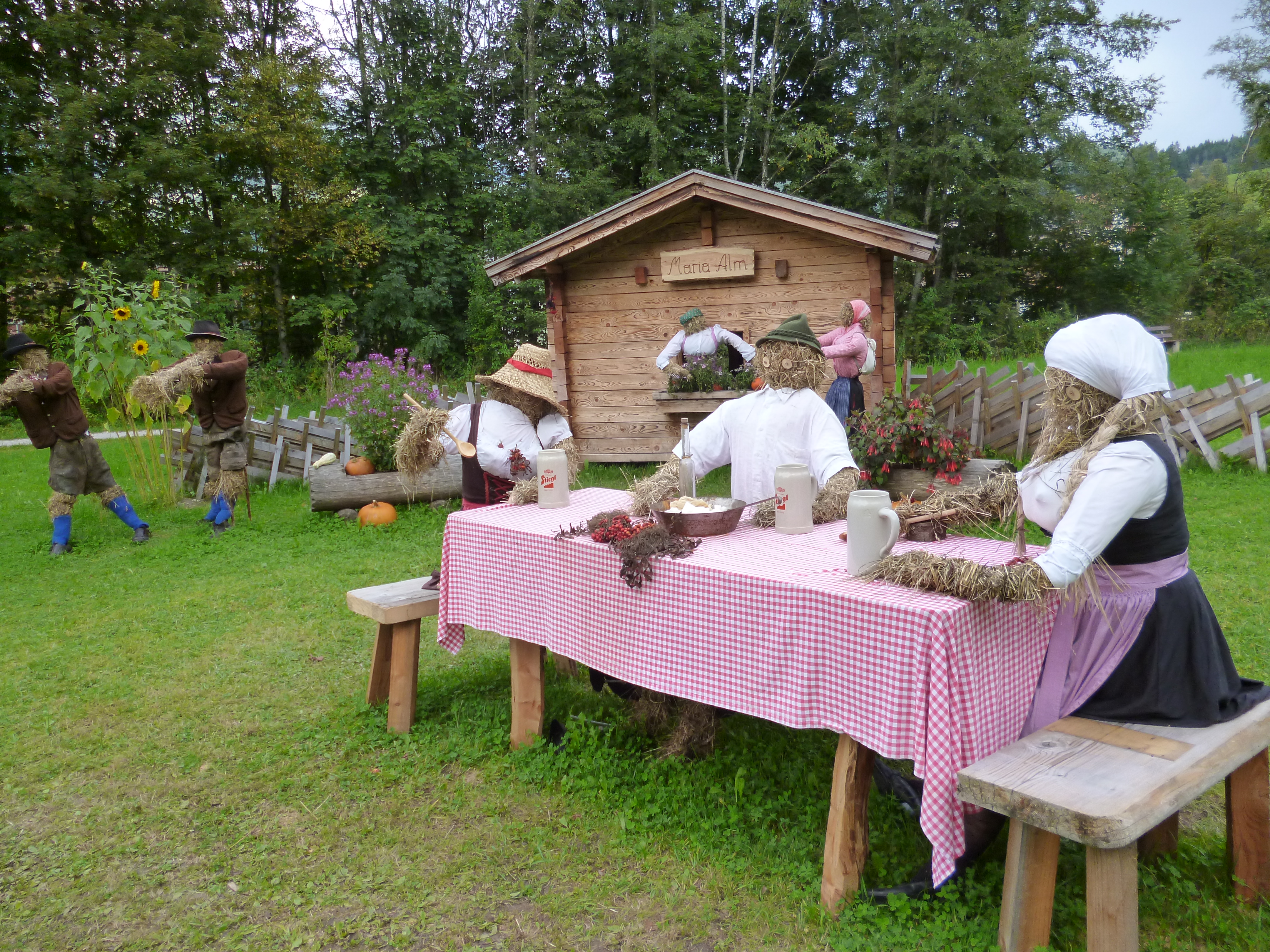 Harvest Festival in Maria Alm am Steinernen Meer